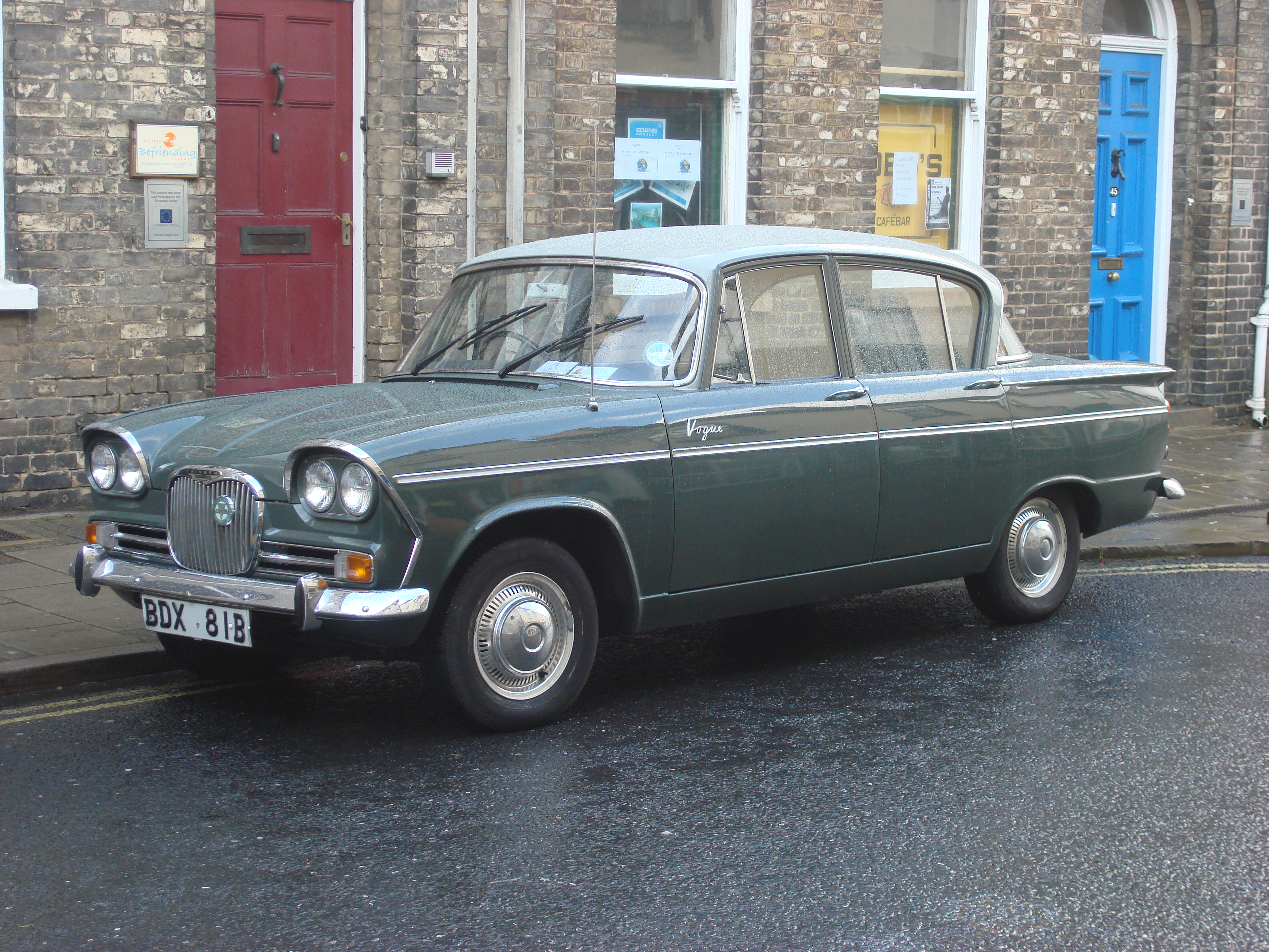 Singer Vogue in Sudbury